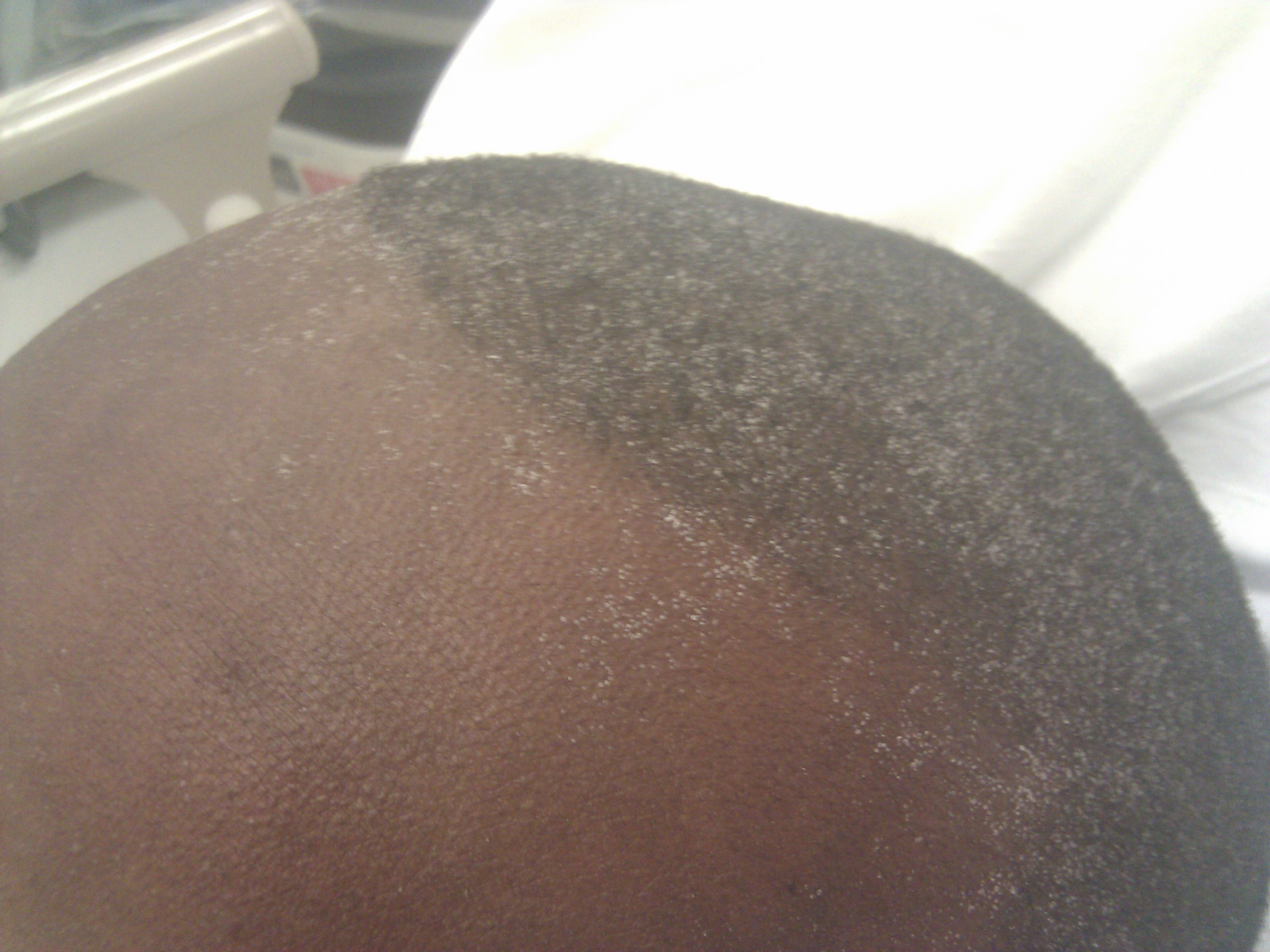 Uremic frost present on the forehead and scalp of a young Afro-Caribbean male with a history of hypertension who presented with chronic progressive anorexia and fatigue with blood urea nitrogen and serum creatinine levels of approximately 100 and 50 mg/dL respectively.